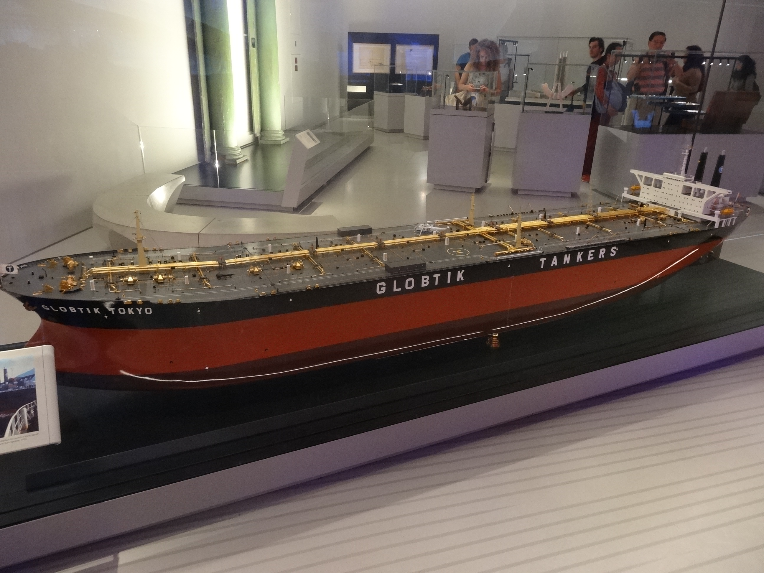 Model oil tanker Globtik Tokyo displayed at the Science Museum (London)